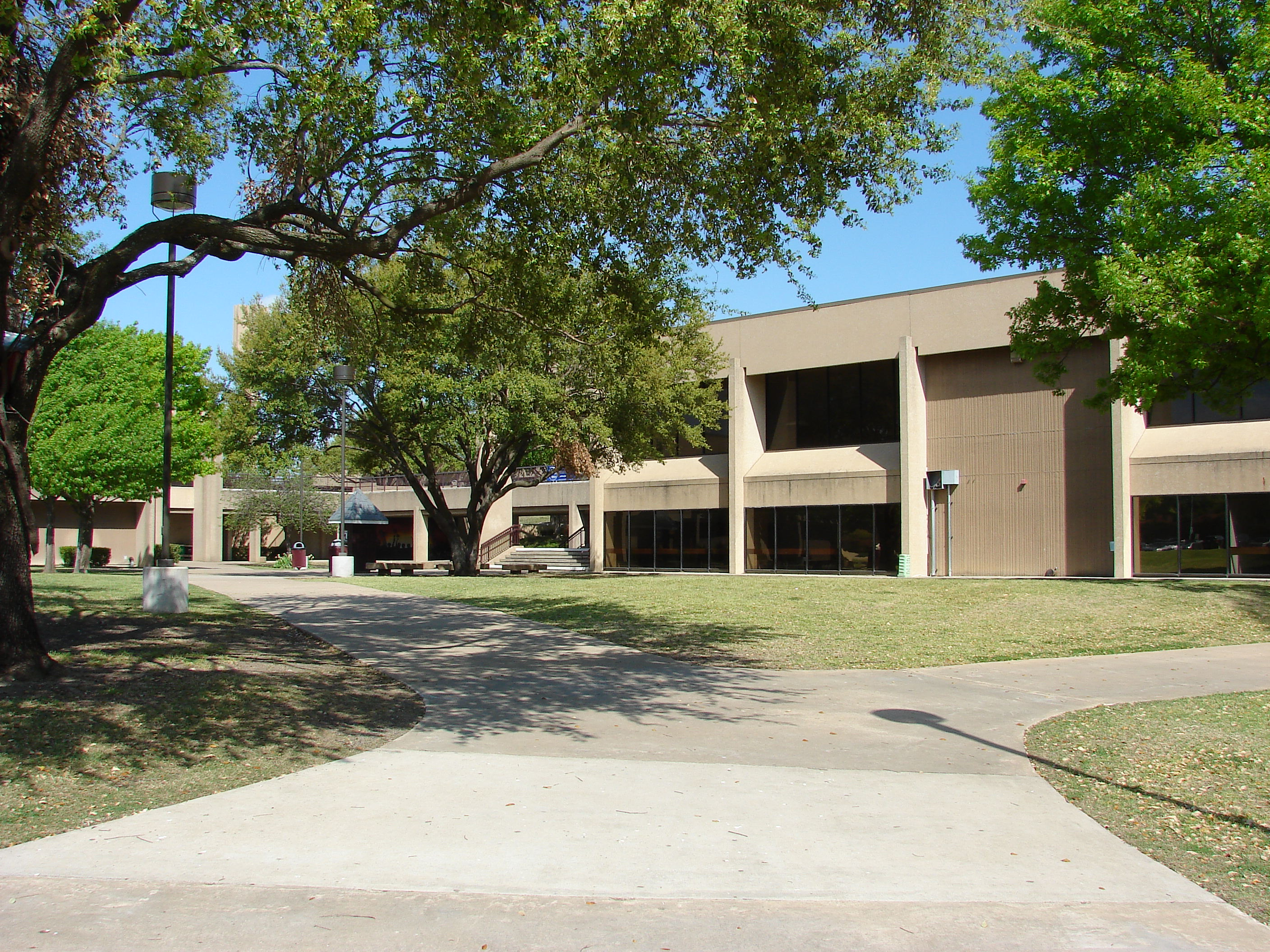 Plano Senior High School in Plano, Texas.